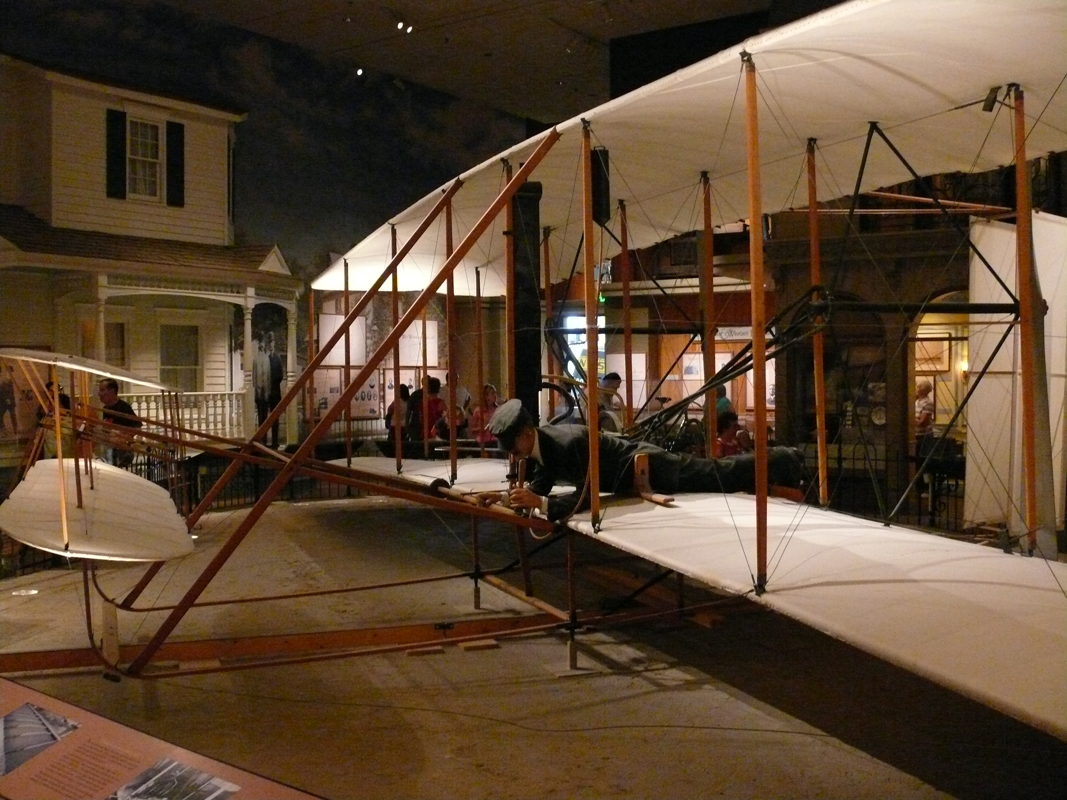 Wright Flyer in the National Air and Space Museum, Washington DC The Wright Flyer was the first powered aircraft designed and built by the Wright brothers. The flight of the Wright Flyer is "the first sustained and controlled heavier-than-air powered flight".